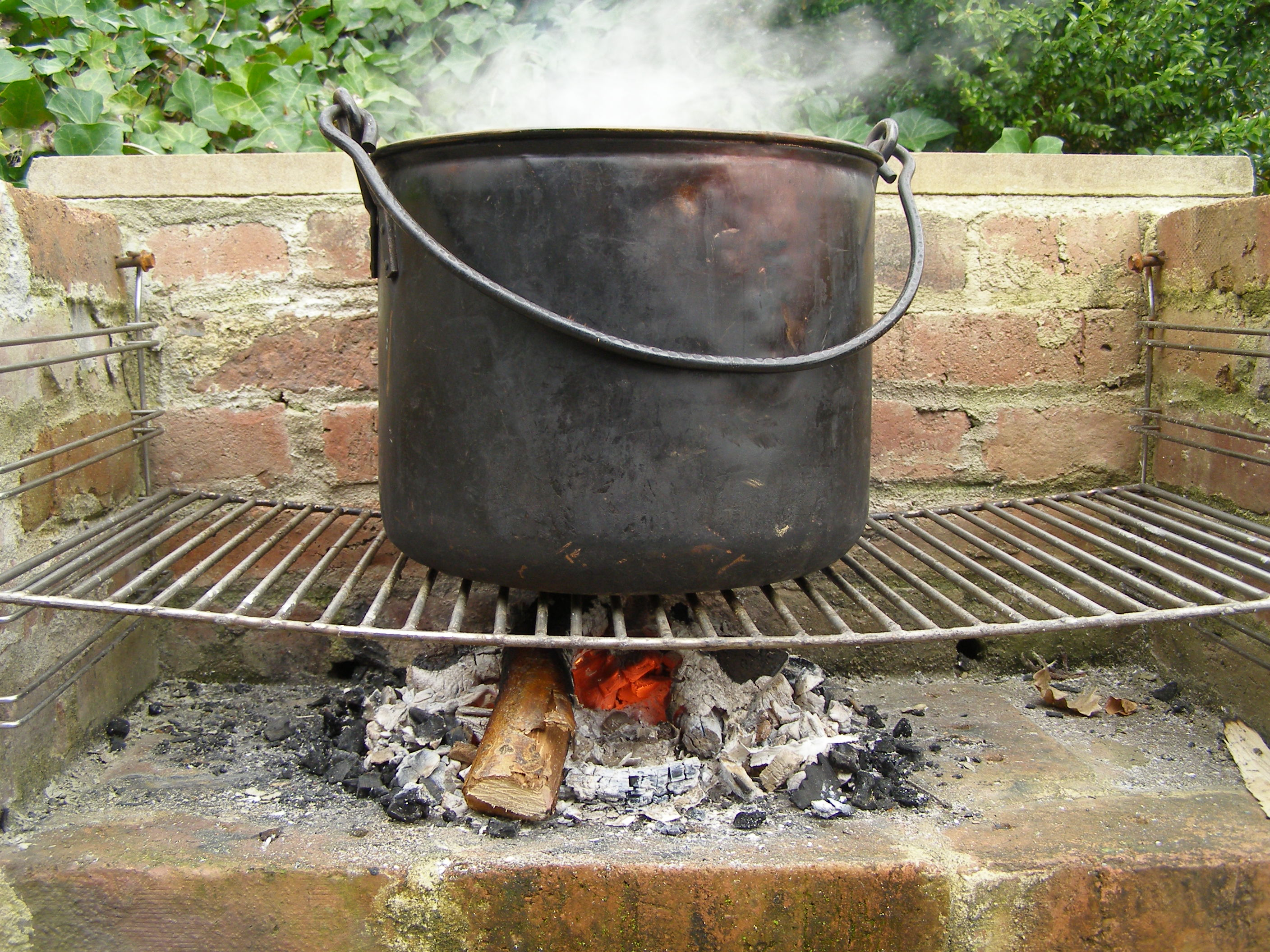 A blackened copper kettle on a grill over hot coals